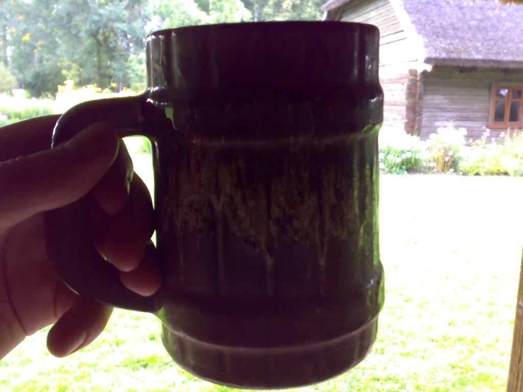 Latgale pottery.